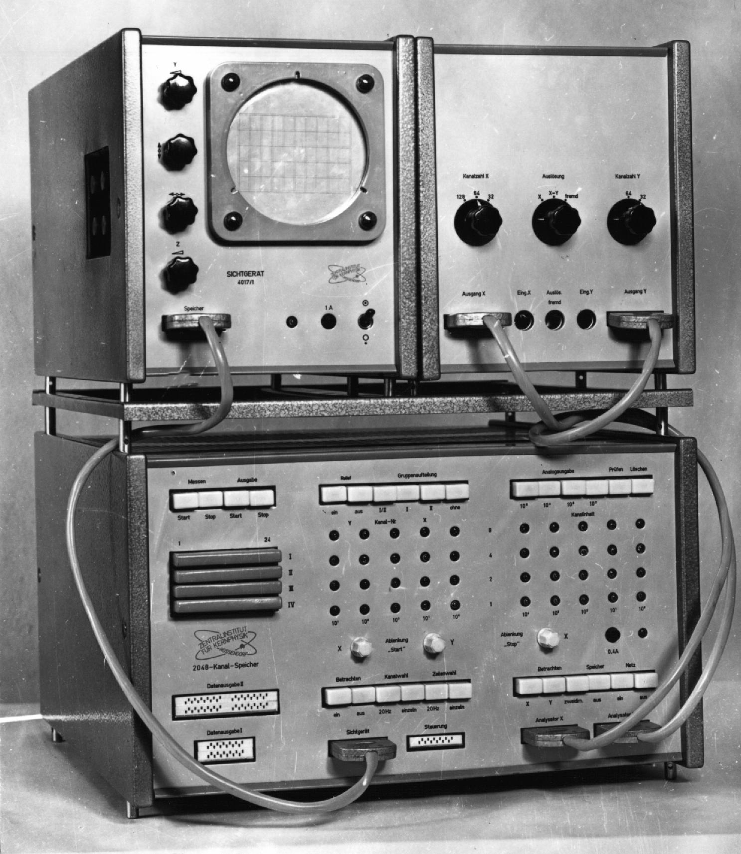 Two-dimensional pulse height analyzer, about 1964